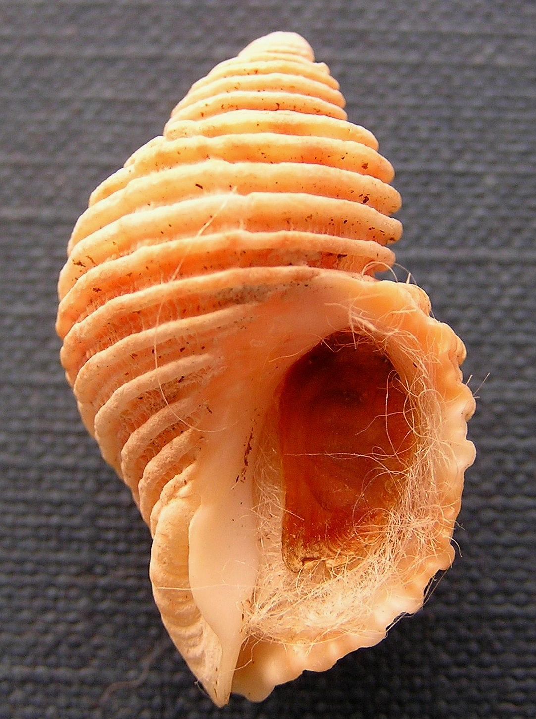 Nucella canaliculata (Duclos, 1832) , a murex snail in the family Muricidae; Washingston , USA